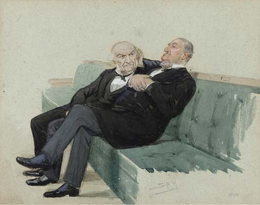 "Babble and Bluster". Caricature of William Ewart Gladstone (left) and William Vernon Harcourt. Part of a 3-page set "Mixed Political Wares". Accompanying biography read "He [Gladstone] has been making political speeches for two generations; yet, since he defended the slaveowners sixty years ago he has scarce taken up a cause that he has not ruined, nor advocated scarce a principle that he has not presently thrown overboard. Chief of 'Babble's' associates is one 'Bluster', who is very proud of his blood, boasting himself to be a Scion of a Royal House. But there is a great difference between the persuasiveness of 'Babble' and the bullying of 'Bluster'; and though he be not without ability he will never suffice to hold together the mixed and unregenerate Party that has just been collected by the 'Babble'".